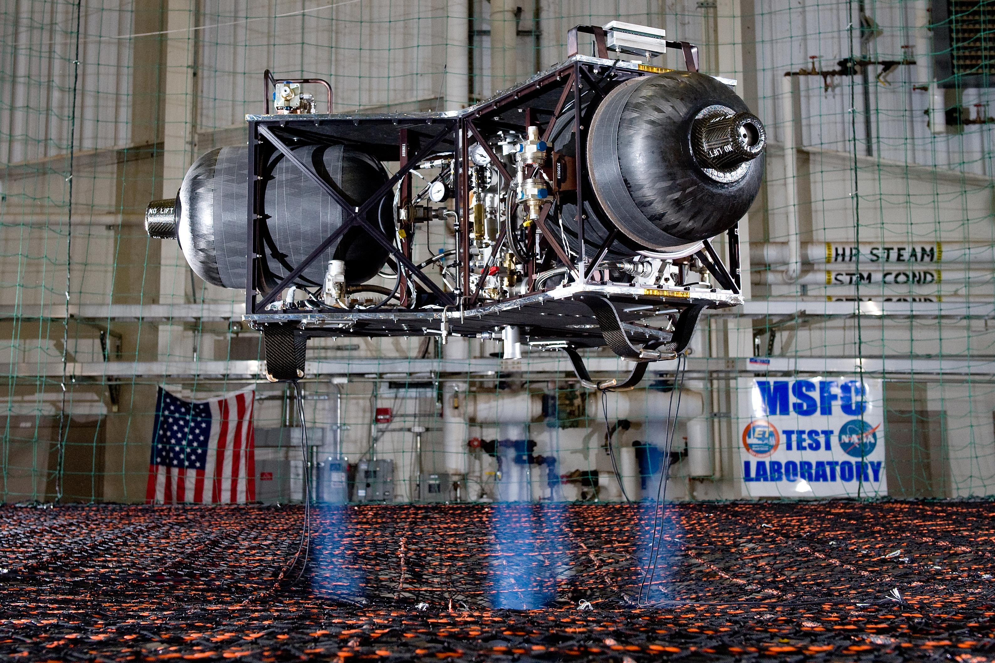 Marshall Space Flight Center is testing a new robotic lunar lander test bed that will aid in the development of a new generation of multi-use landers for robotic space exploration. The test article is equipped with thrusters that guide the lander, one set of which controls the vehicle's attitude that directs the altitude and landing. On the test lander, an additional thruster offsets the effect of Earth's gravity so that the other thrusters can operate as they would in a lunar environment. MSFC is partnered with Johns Hopkins University Applied Physics Laboratory and the Von Braun Center for Science and Innovation for this project. Shown above is the Cold Gas Test Article (CGTA), which served as a precursor to the WGTA and provided a platform for algorithm development and testing, short-duration (10 second) flights, and autonomously controlled descent.